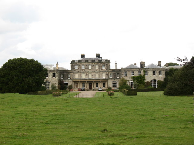 Birdsall House The house is mainly of the mid 18th century, but was remodelled several times over the following 130 years, with the latest alterations and improvements by Salvin, who was employed by the eighth Lord Middleton in 1871-5. The irregular surface of the parkland in front of the house is the site of the original village, which was finally swept away in the 18th century.